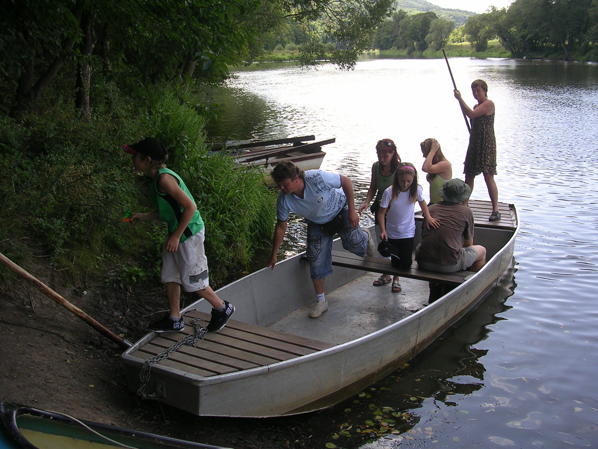 Branov-Luh, Rakovník District, Central Bohemian Region, the Czech Republic. A ferry.